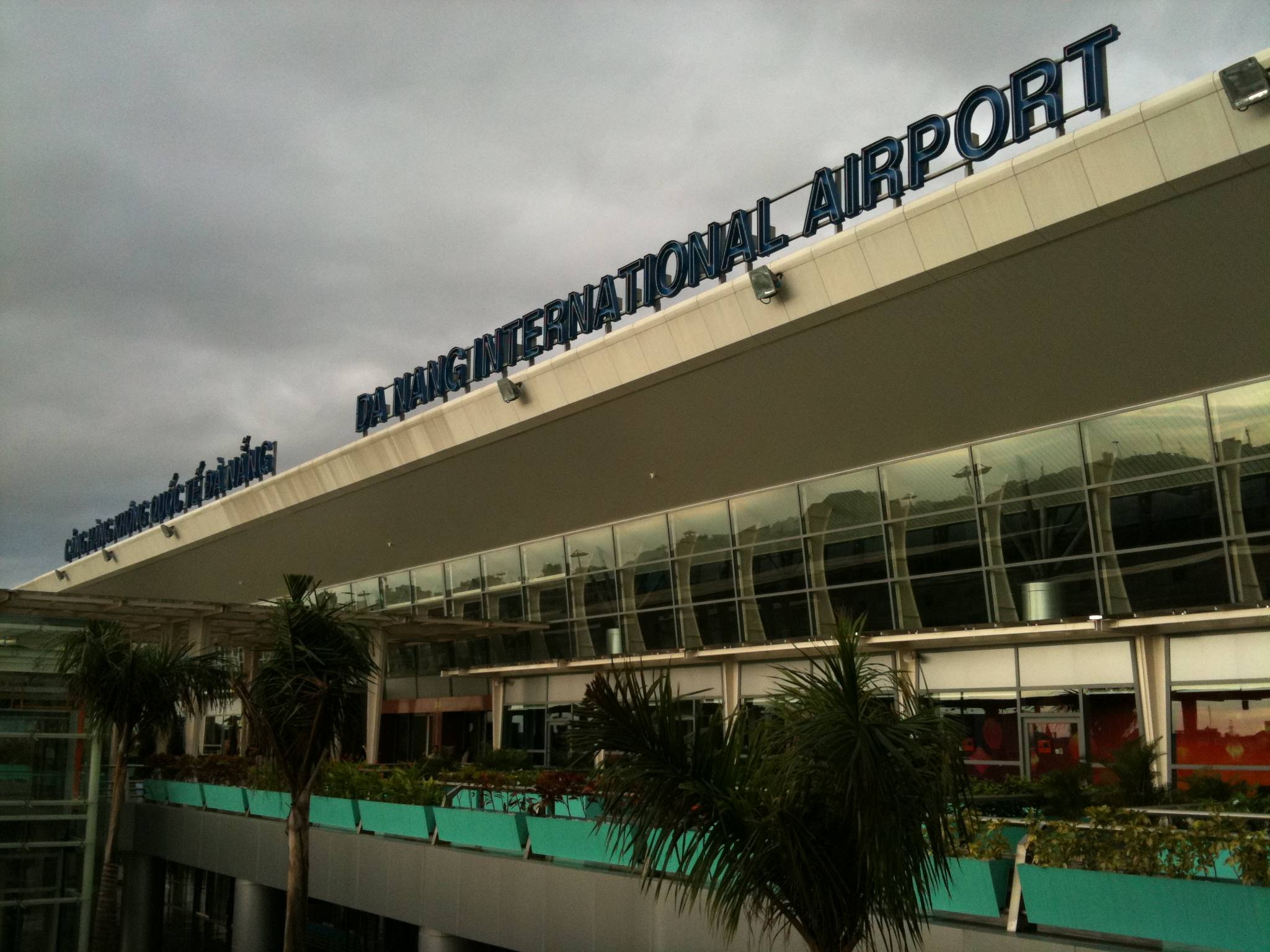 The new terminal at Danang Int'l Airport.